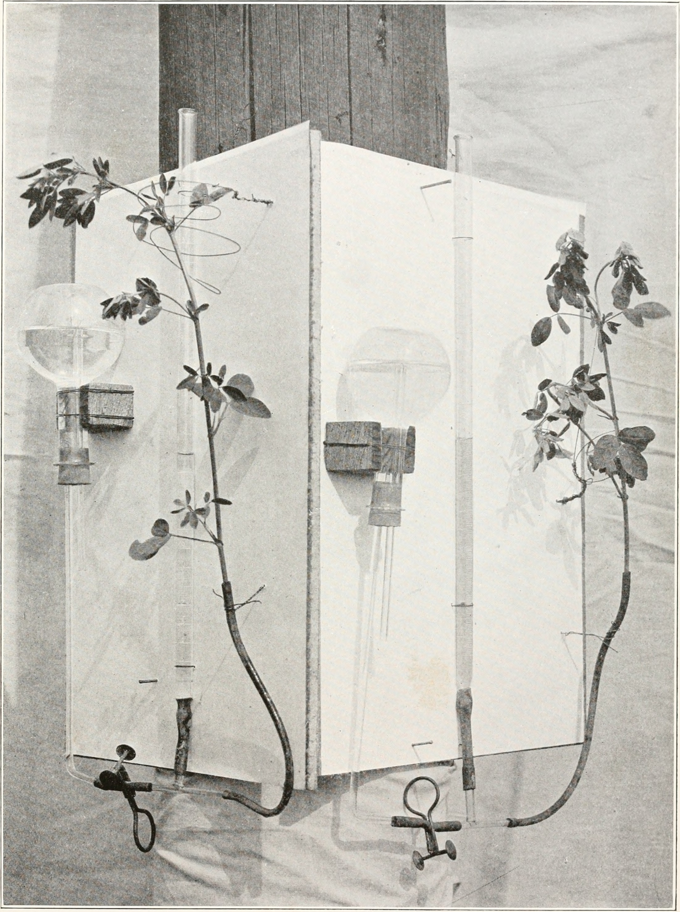 Title: Carnegie Institution of Washington publication Year: 1902- (1900s) Authors: Carnegie Institution of Washington Subjects: Publisher: Washington, Carnegie Institution of Washington Text Appearing Before Image: LOFTFIELD PLATE 11 Text Appearing After Image: Type of potometer used for stomata experiments.